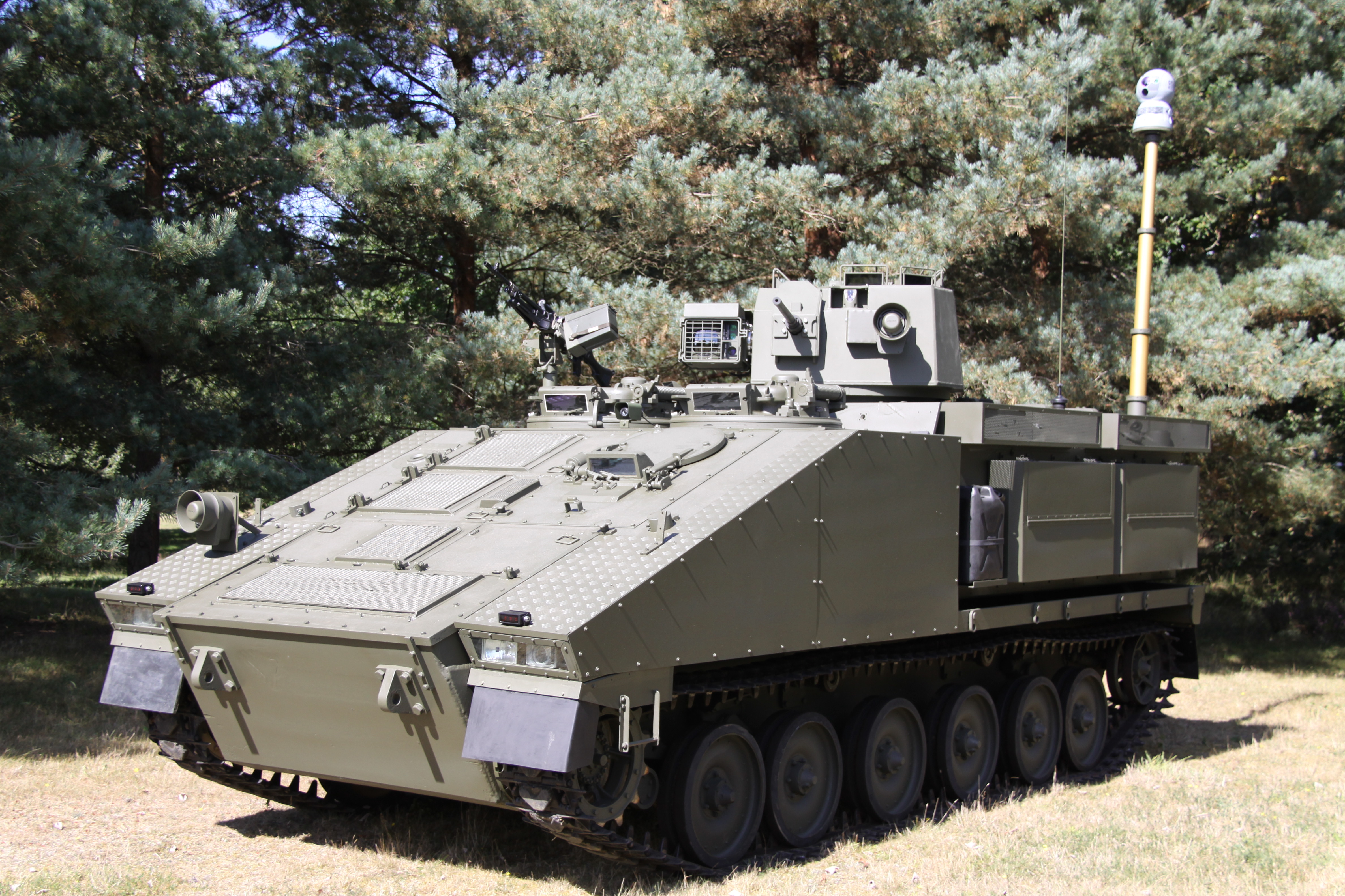 The mPODt derived from a CVR(T) Stallion chassis on its first public debut on 02 Sep 2013